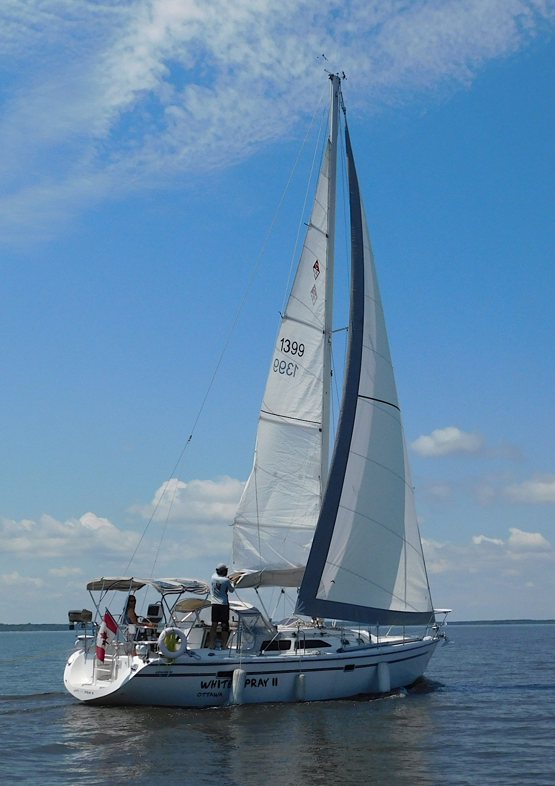 A Catalina 36 Mark II sailboat named White Spray II.